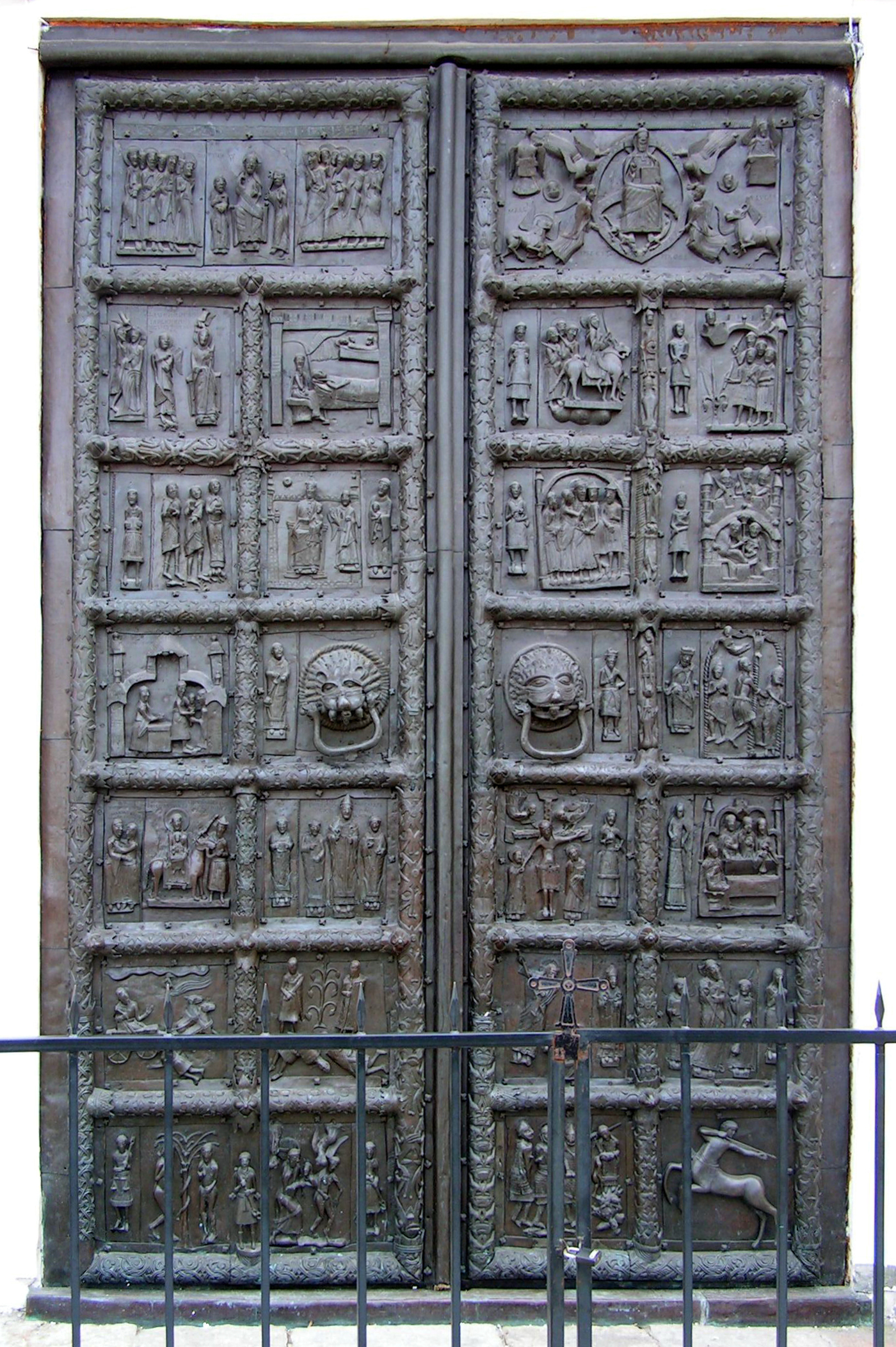 Saint Sophia Cathedral in Novgorod - gates, 12th century